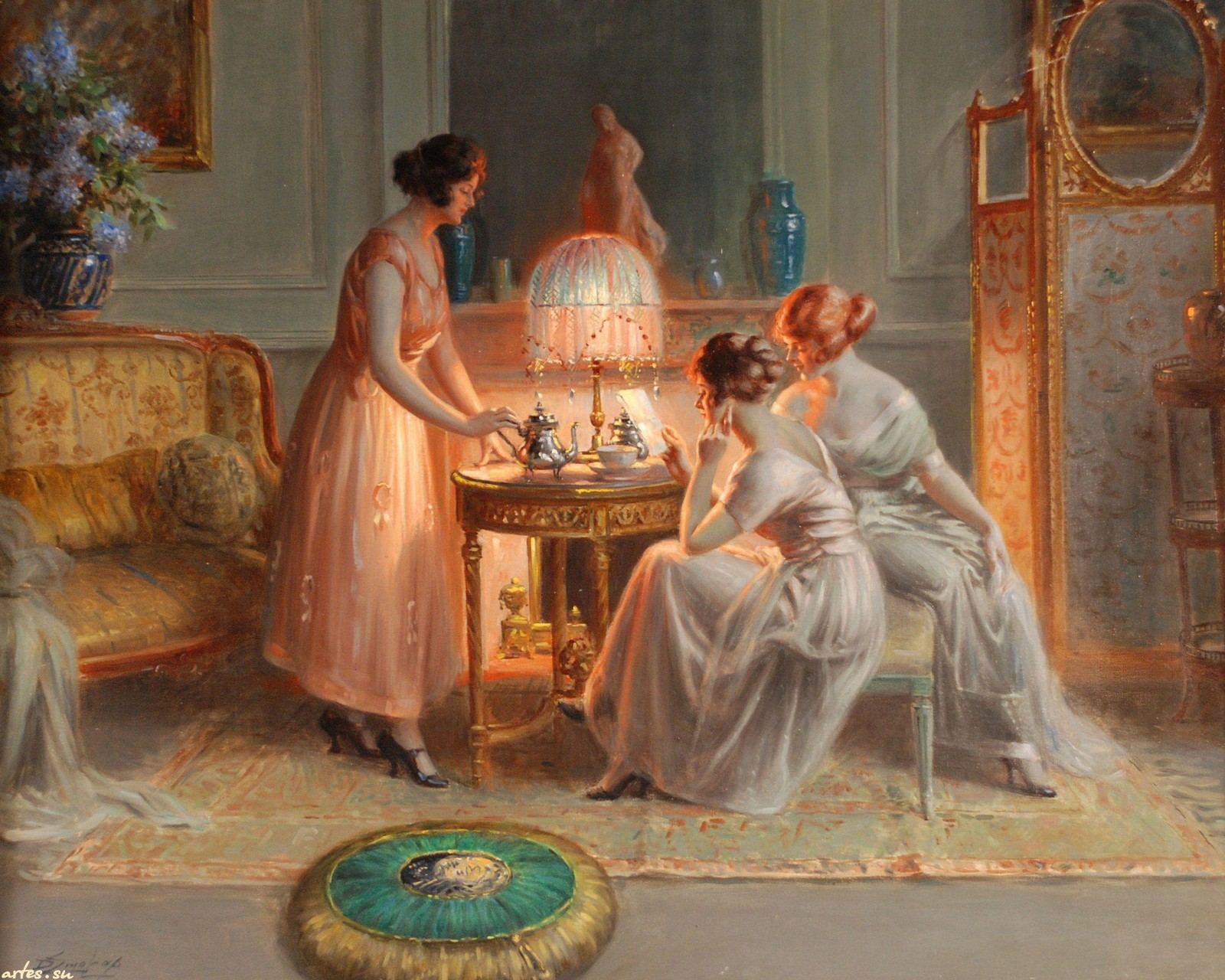 Painting by Delphin Enjolras